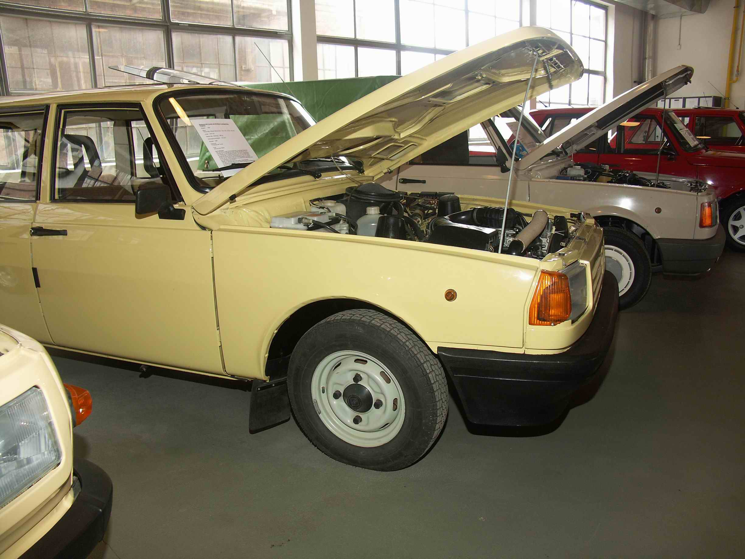 Prototype of a Wartburg 1.3 with a longitudinal engine, while the (later) produced model had a transverse engine. The photo was taken at the AWE Museum Eisenach.